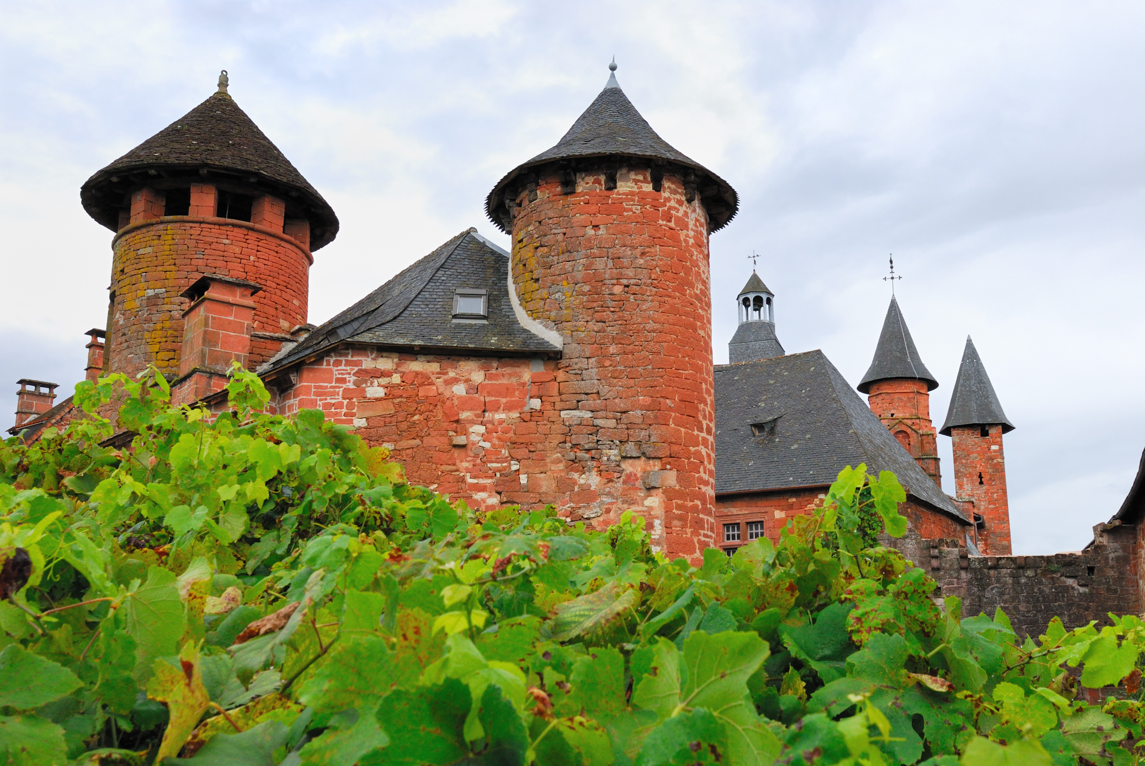 view of Collonges la Rouge